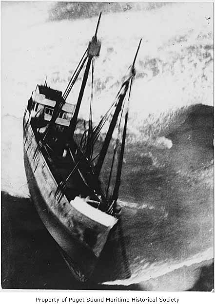 Description: Motorship, stranded in the surf at Cape Fairweather, in the Gulf of Alaska, December 11, 1938 (Puget Sound Maritime Historical Society Note). Handwritten on verso: Patterson. Printed on face at bottom: "Property of Puget Sound Maritime Historical Society" View source image . More information on the commercial rights for this photo . Part of King County Snapshots University of Washington Libraries . Brought to you by IMLS Digital Collections and Content . Unrestricted access; use with attribution. Note Patterson had diesel power by this point, not steam.